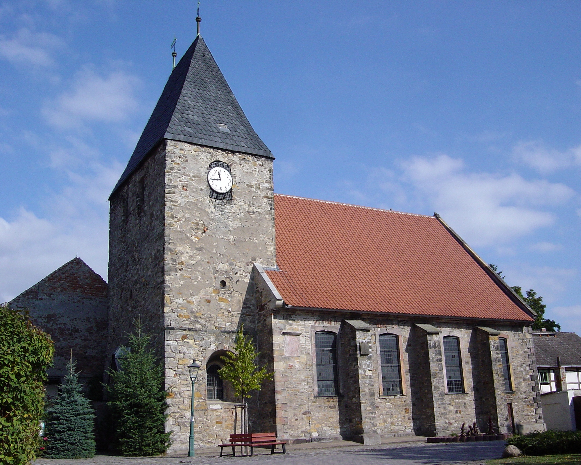 Church in Drackenstedt, Germany